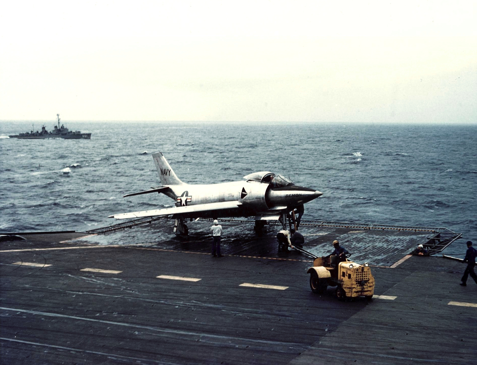 A U.S. Navy McDonnell XF3H-1N Demon on the elevator of the aircraft carrier USS Coral Sea (CVA-43), in 1953. The destroyer USS Rupertus (DD-851) is visible in the background.